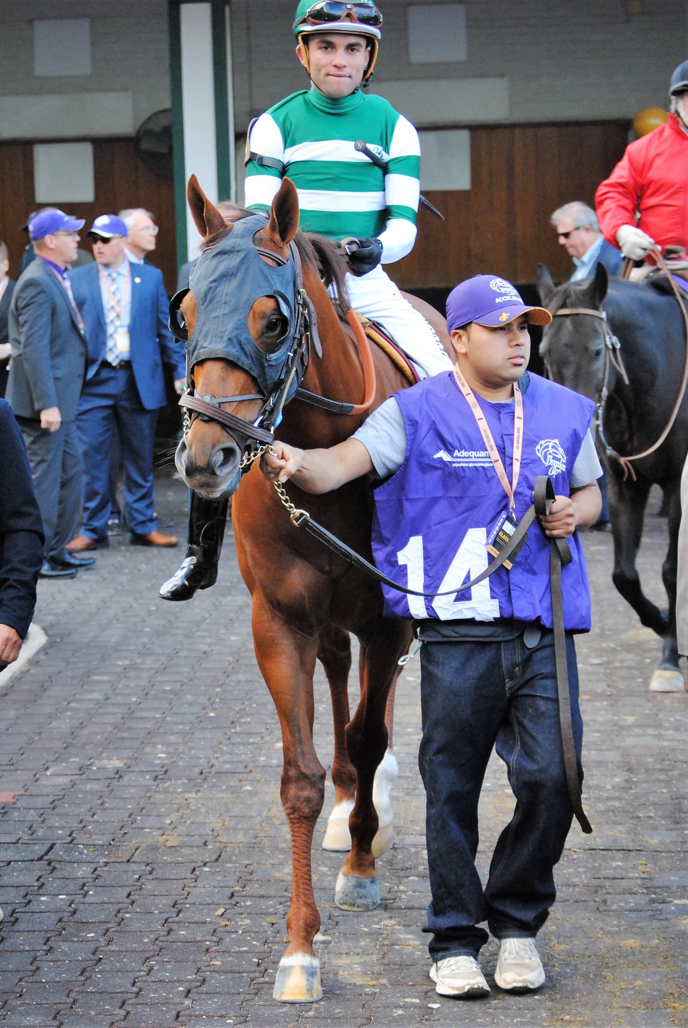 Accelarate and Joel Rosario at the 2018 Breeders' Cup